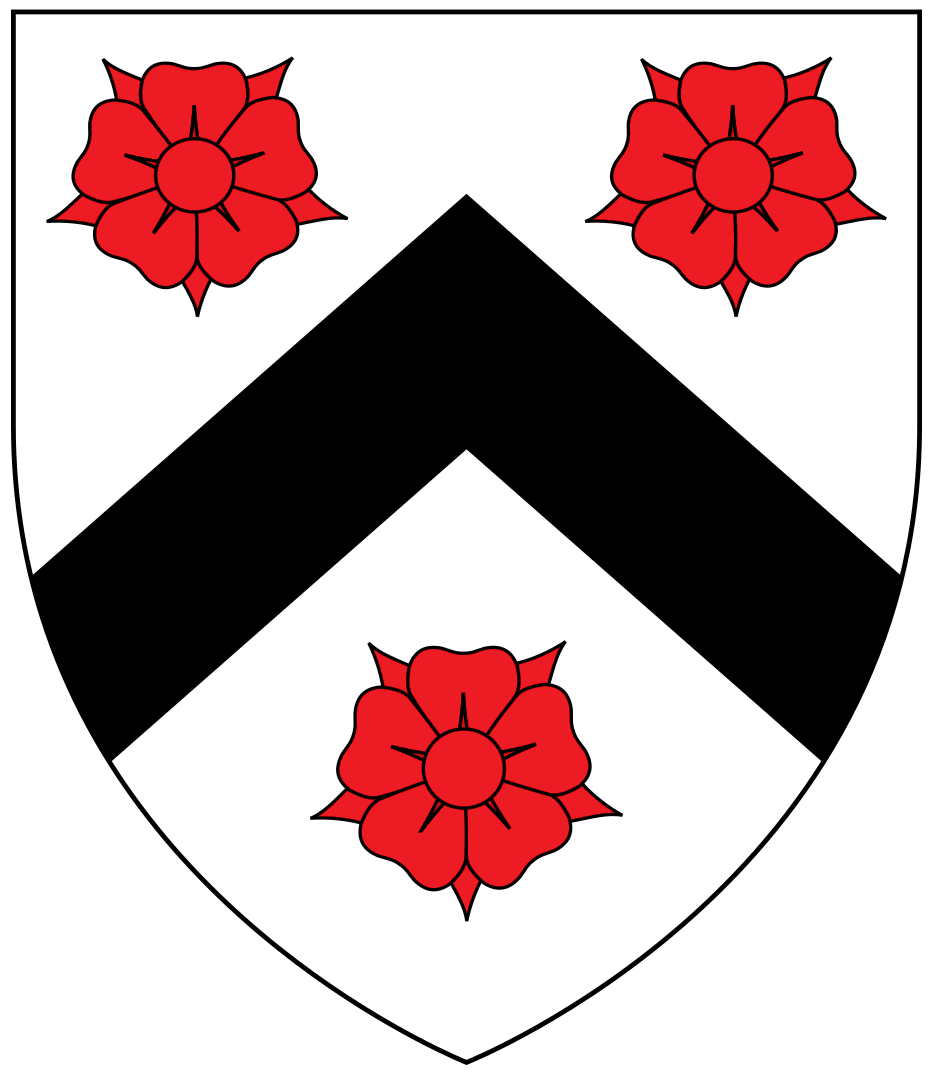 Arms of Northleigh of Northleigh in the parish of Inwardleigh, Devon: Argent, a chevron sable between three roses gules (Vivian, Lt.Col. J.L., (Ed.) The Visitation of the County of Devon: Comprising the Heralds' Visitations of 1531, 1564 & 1620, Exeter, 1895, p.584)